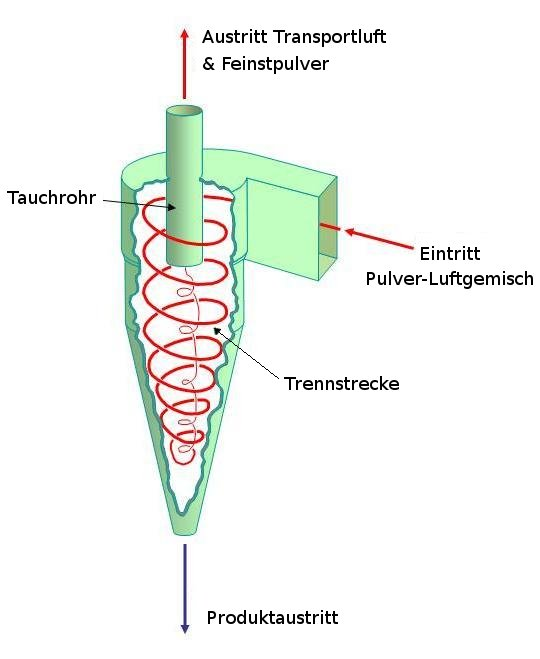 Shows how the Cyclone Separator works (in german).